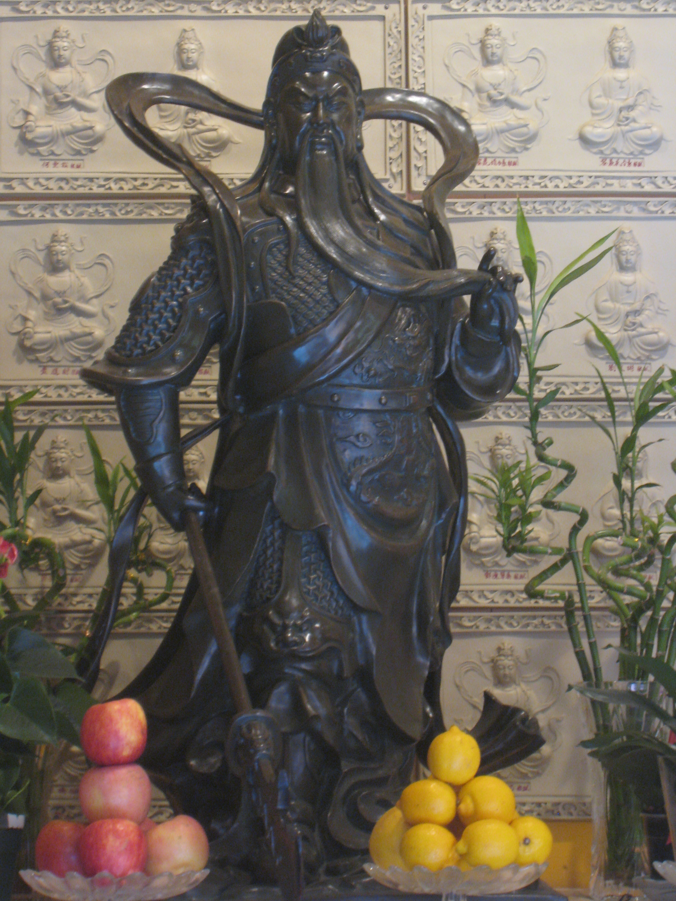 He Hua tempel, Amsterdam